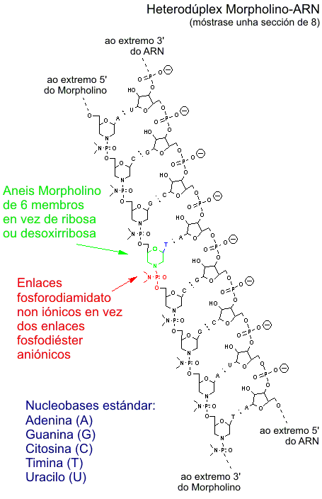 annotated in Galician